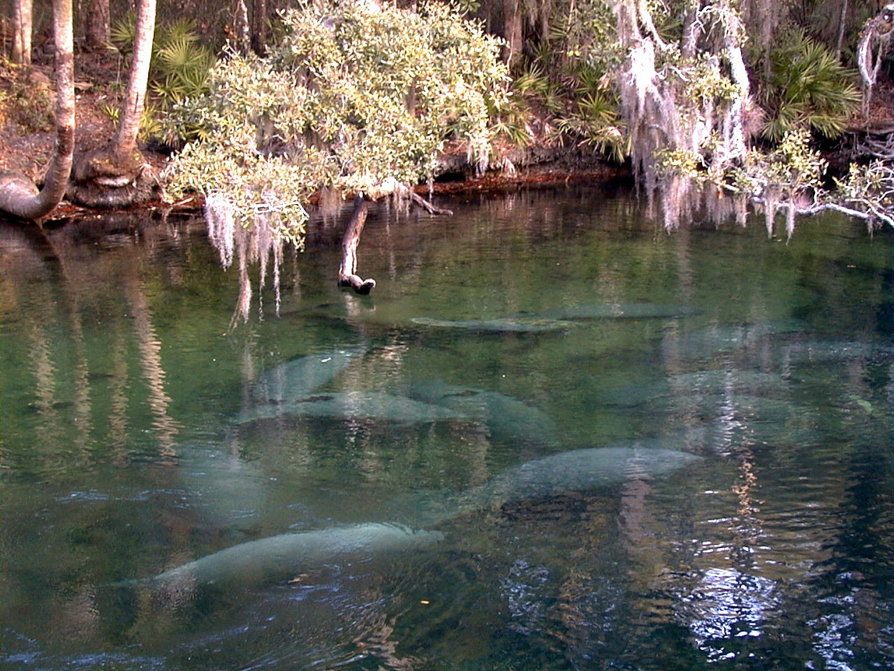 A herd of Manatees in Blue Spring, Deland, Florida. Taken by User:Mwanner, February, 2004.